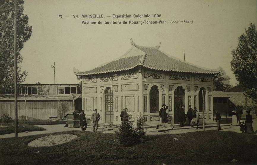 Pavilion of Kwang-Tchéou-Wan (Kwangchowan,now Guangzhouan) at the Marseille Colonial Exhibition of 1906. Kwang-Tchéou-Wan was not a colony as such but rather a leased territory administered from French Indochina. Postcard issued in 1906.